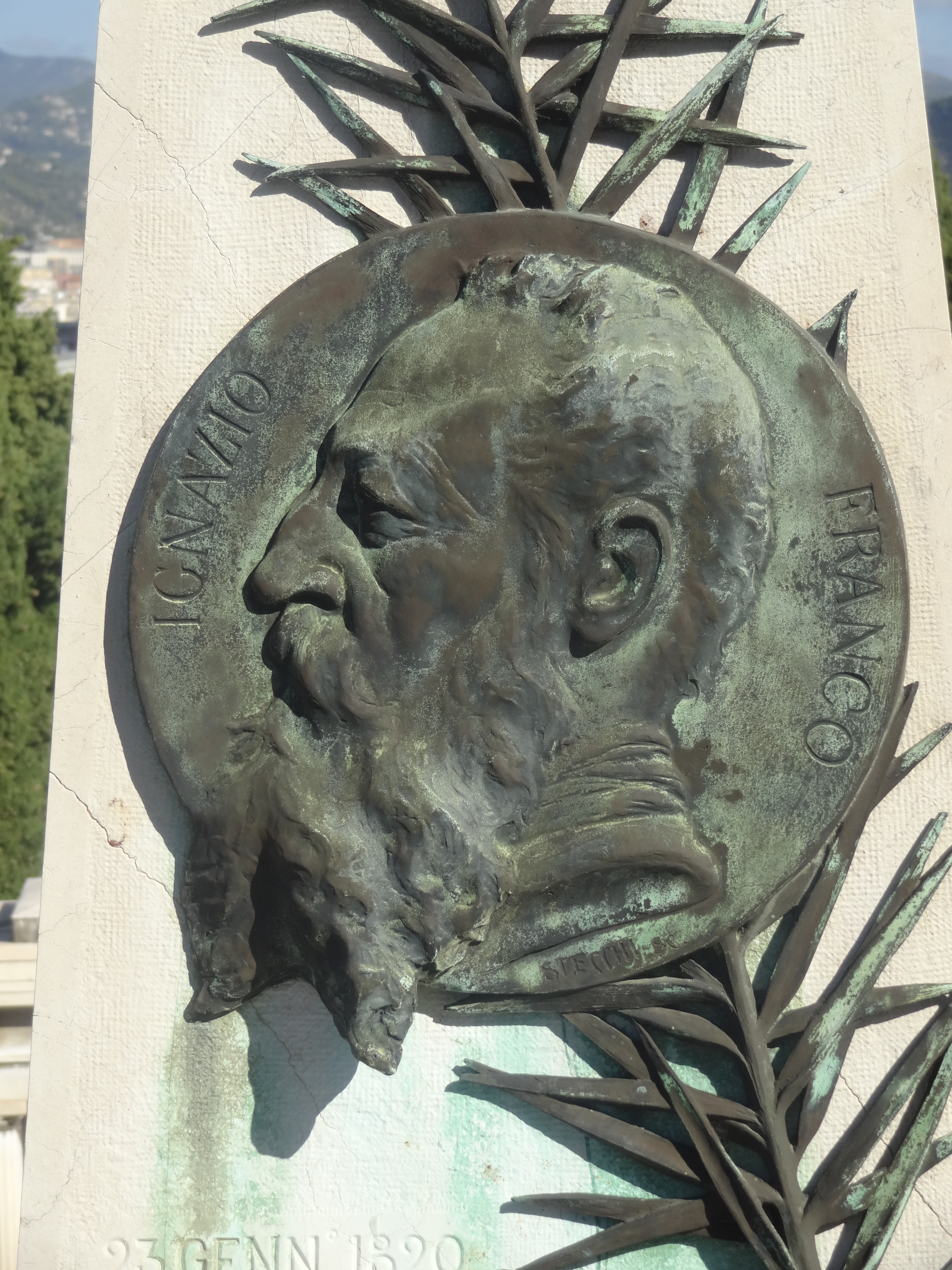 Franco Ignazio, Médaillon en bronze par Fabio Stecchi sur sa tombe, Cimetière du Château, Nice